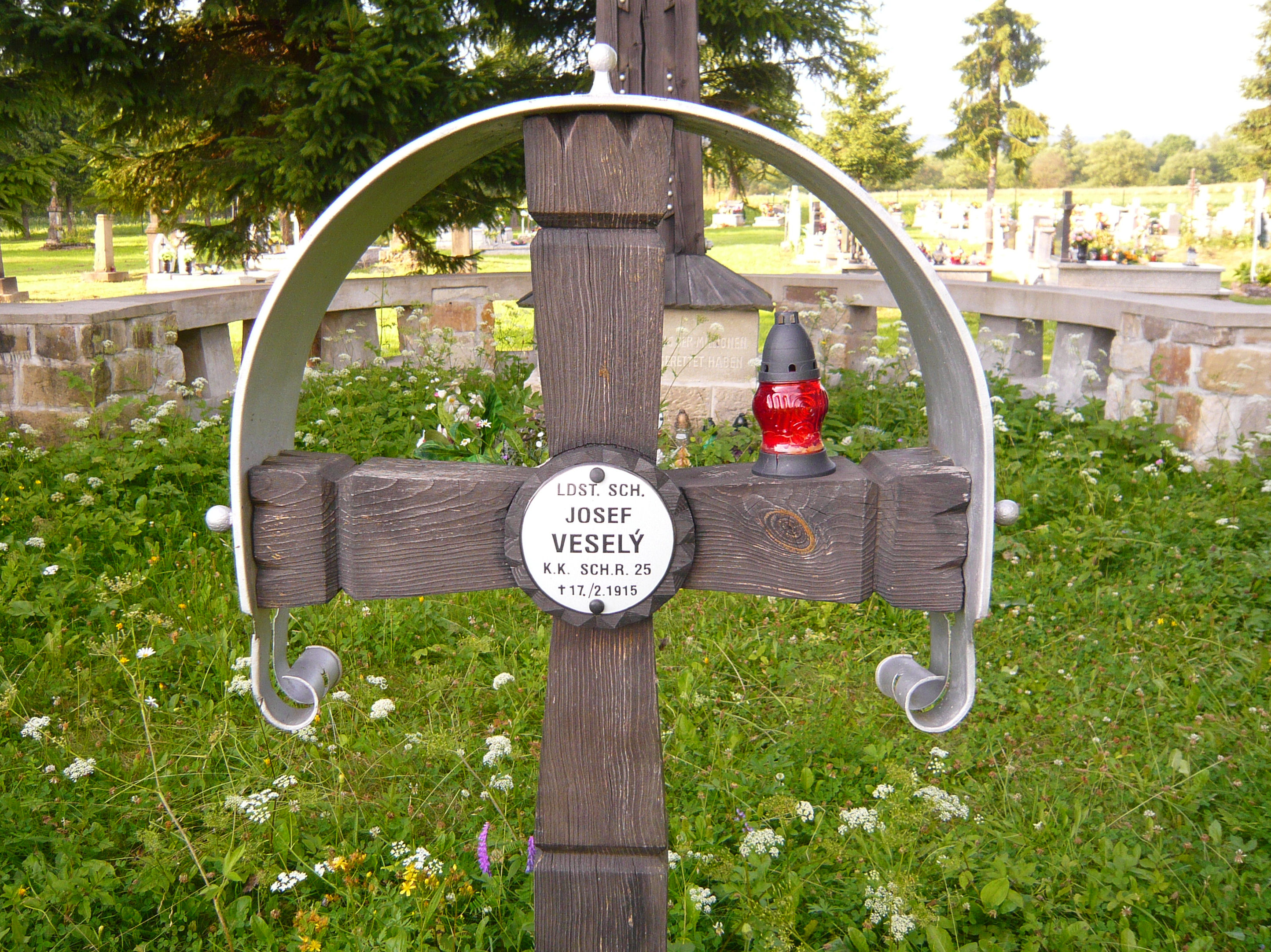 World War I Cemetery nr 56 in Smerekowiec